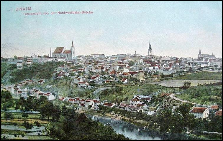 The town of Znojmo in Moravia, Czech Rep., EU